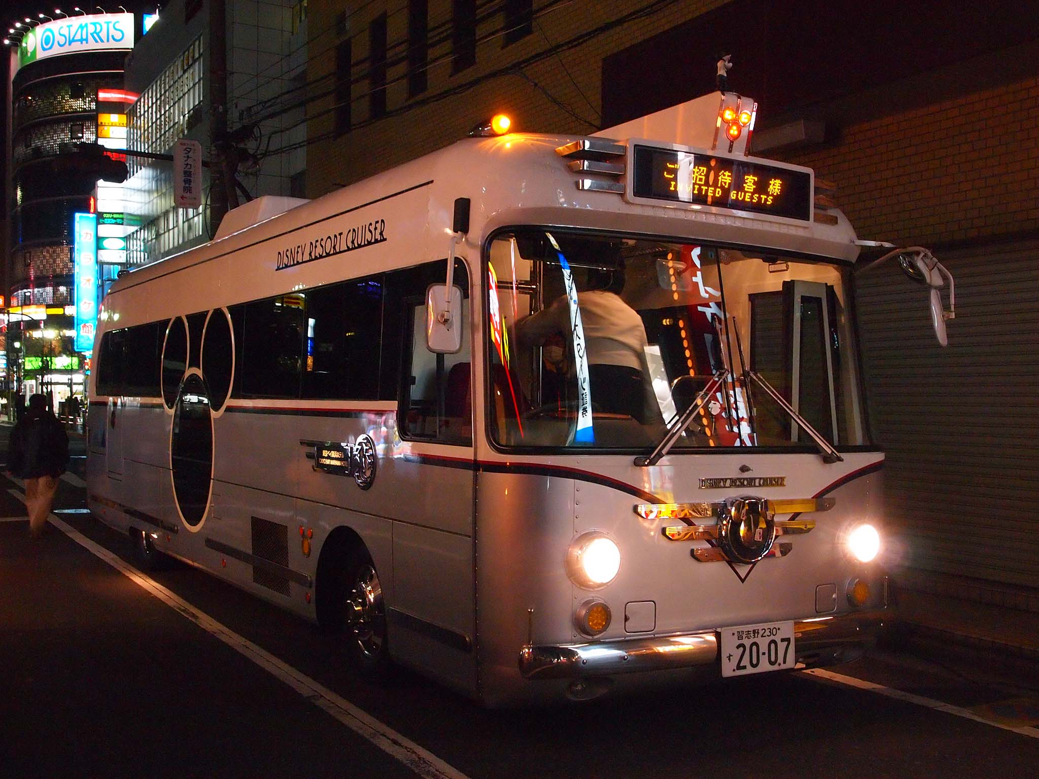 Example of Disney Resort Cruiser, 2nd generation model, owned by Tokyo Bay Maihama Hotel. Based car: Hino Melpha RR7JJ License plate: CBN230 SU2007 Place: Nishi-Kasai, Edogawa Ward, Tokyo Japan